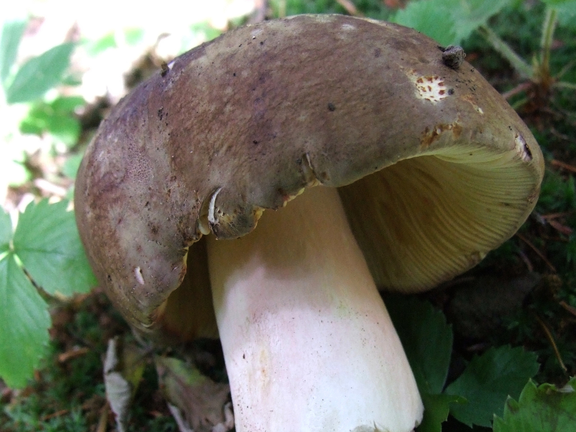 Russula cyanoxantha